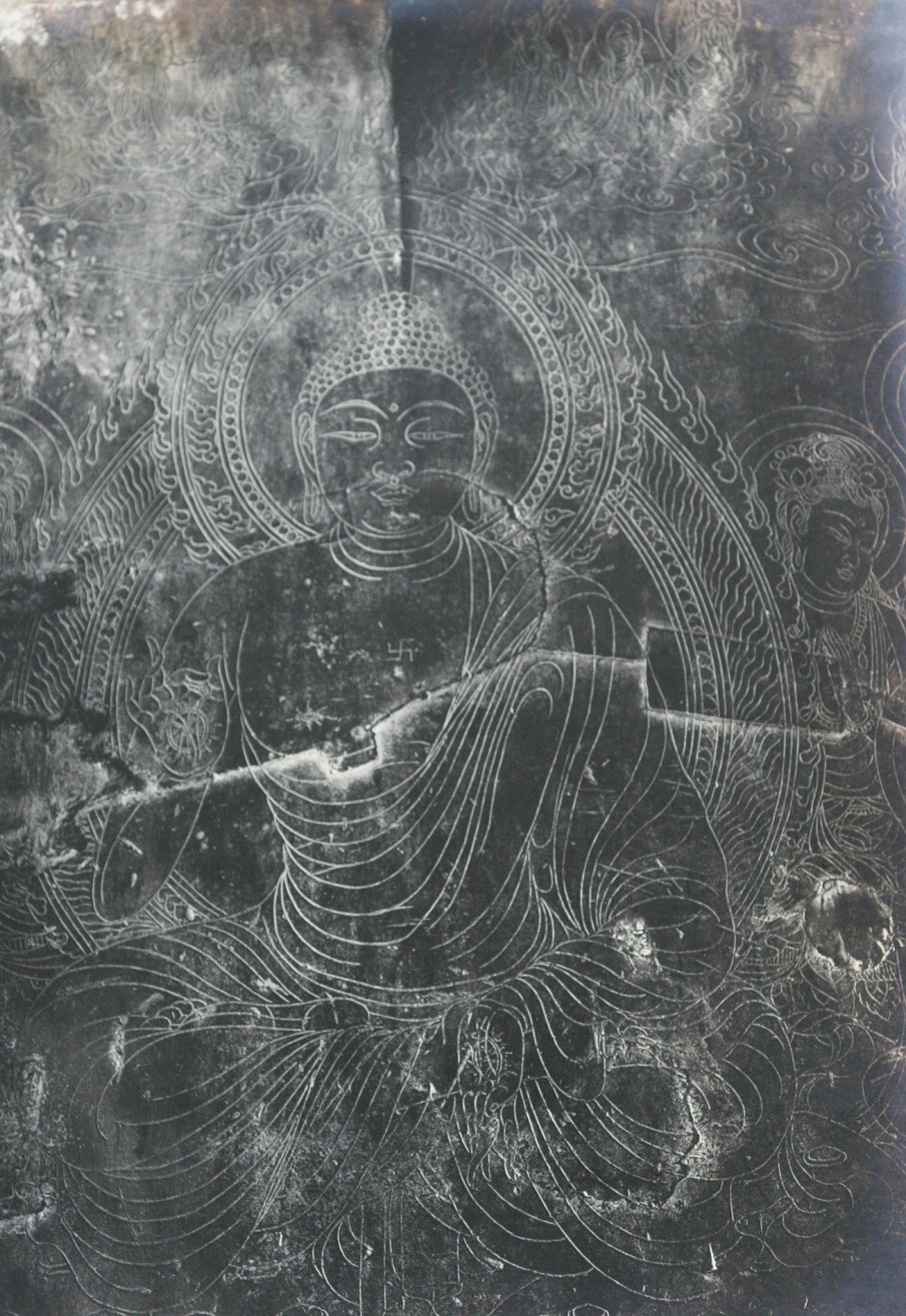 Incised images on a bronze lotus petal on Statue of Buddha at Todaiji Temple , NARA, Japan , about ACE 752